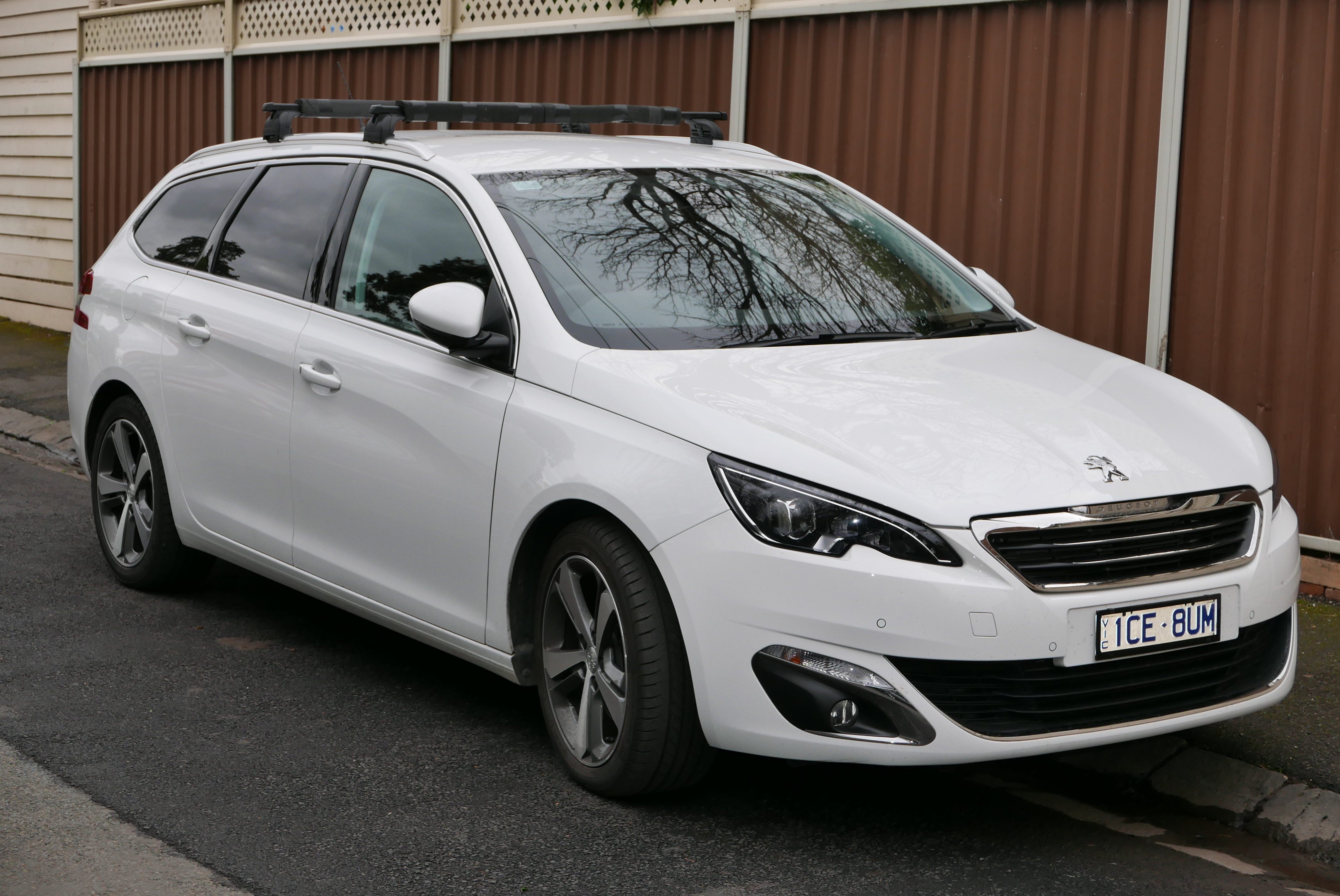 2014 Peugeot 308 (T9) Allure Touring station wagon. Photographed in Alphington, Victoria, Australia. Vehicle registration enquiry resultsJurisdictionVictoriaRegistration1CE8UMChassis codeVF3LJAHXWES229544Engine code10DYZN4014767Compliance date2014-11Year of manufacture2014